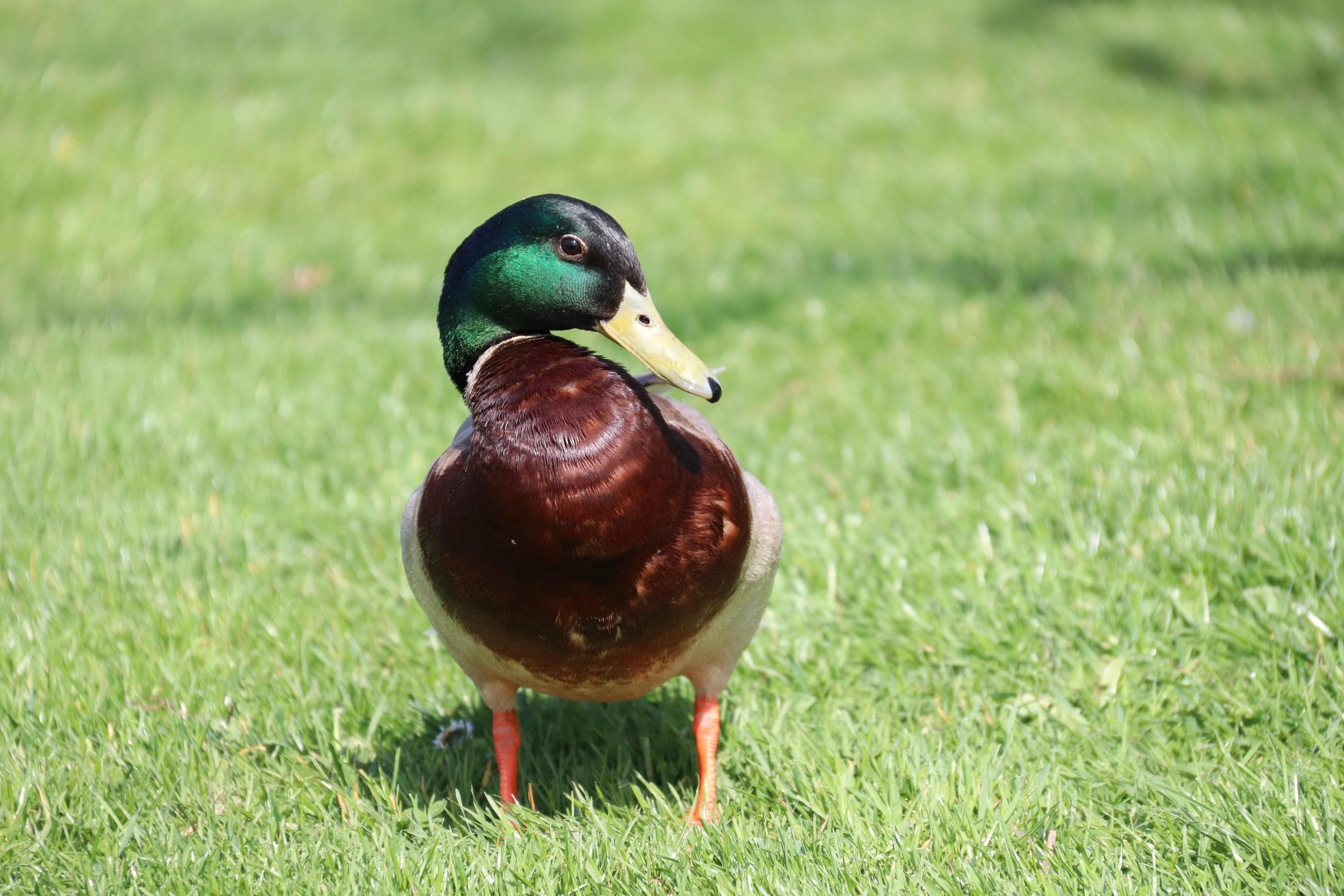 Male mallard on grass in the Netherlands